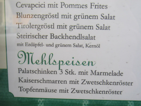 Examples for differing vocabulary in Austrian Standard German Glimps of a menu from an traditional Austrian "Wirtshaus" (restaurant), with several typically dishes and their unique Austrian names.